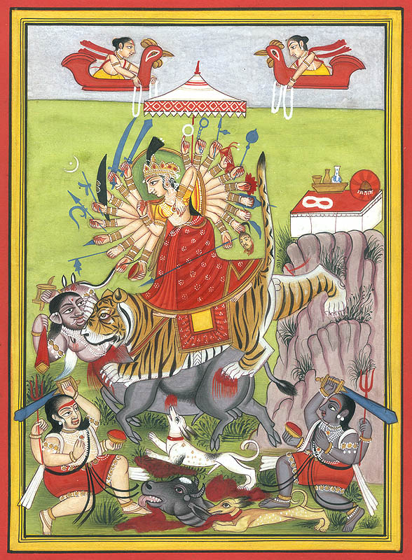 Durga slays Mahishasura.